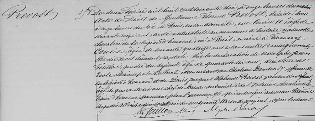 Death entry of Guillaume Florent Prévost